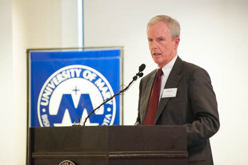 Dr. Don Briel giving the keynote address at "Twenty Years of Catholic Studies: A Conference in Honor of Dr. Don J. Briel" on the campus of the University of Mary